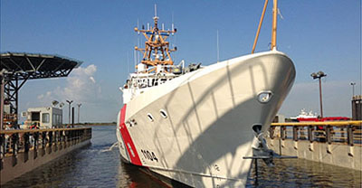 Sentinel class cutter USCGC Robert Yered. Original caption: “ Robert Yered conducts familiarization training at Port Fourchon, La. October 4, 2012. U.S. Coast Guard Photo ”